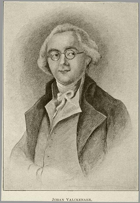 Portrait of Patriot Johan Valckenaer, member of the National Assembly of the Batavian Republic.